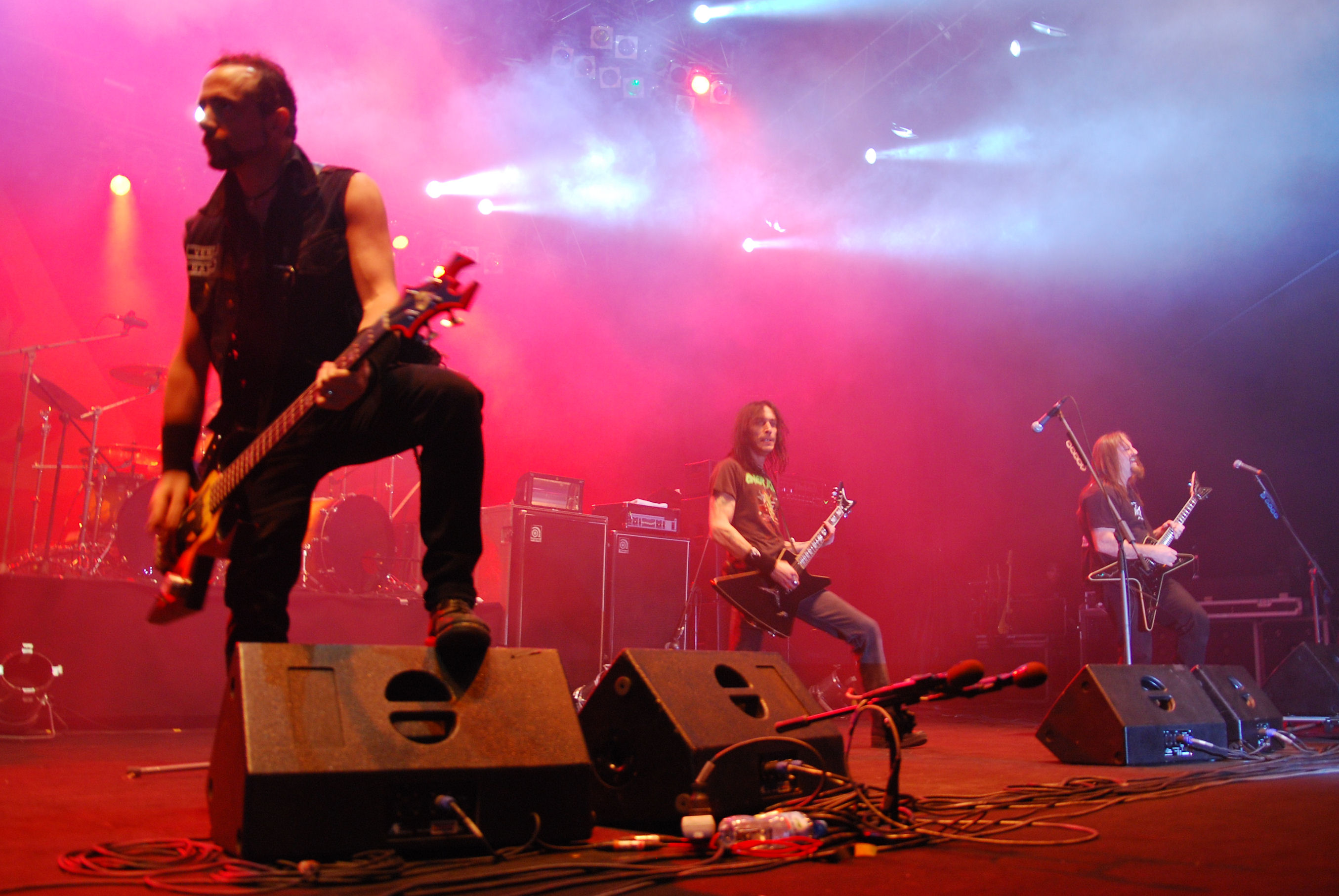 Overkill during Metalmania 2008 festival